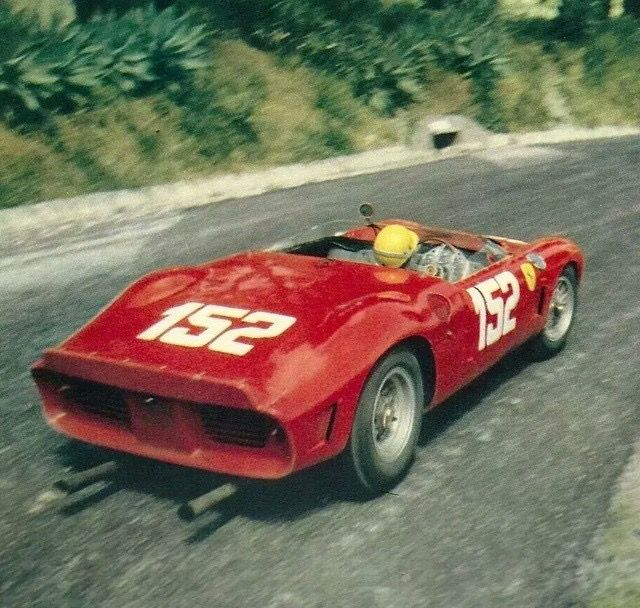 Entry #152, the 1961 Ferrari 246 SP s/n 0796 won Targa Florio on 6 May 1962. Three drivers may have been in the car: Willy Mairesse, Ricardo Rodriguez or Olivier Gendebien.[1] Location of this picture: Unknown (but there were several pictures taken right here).